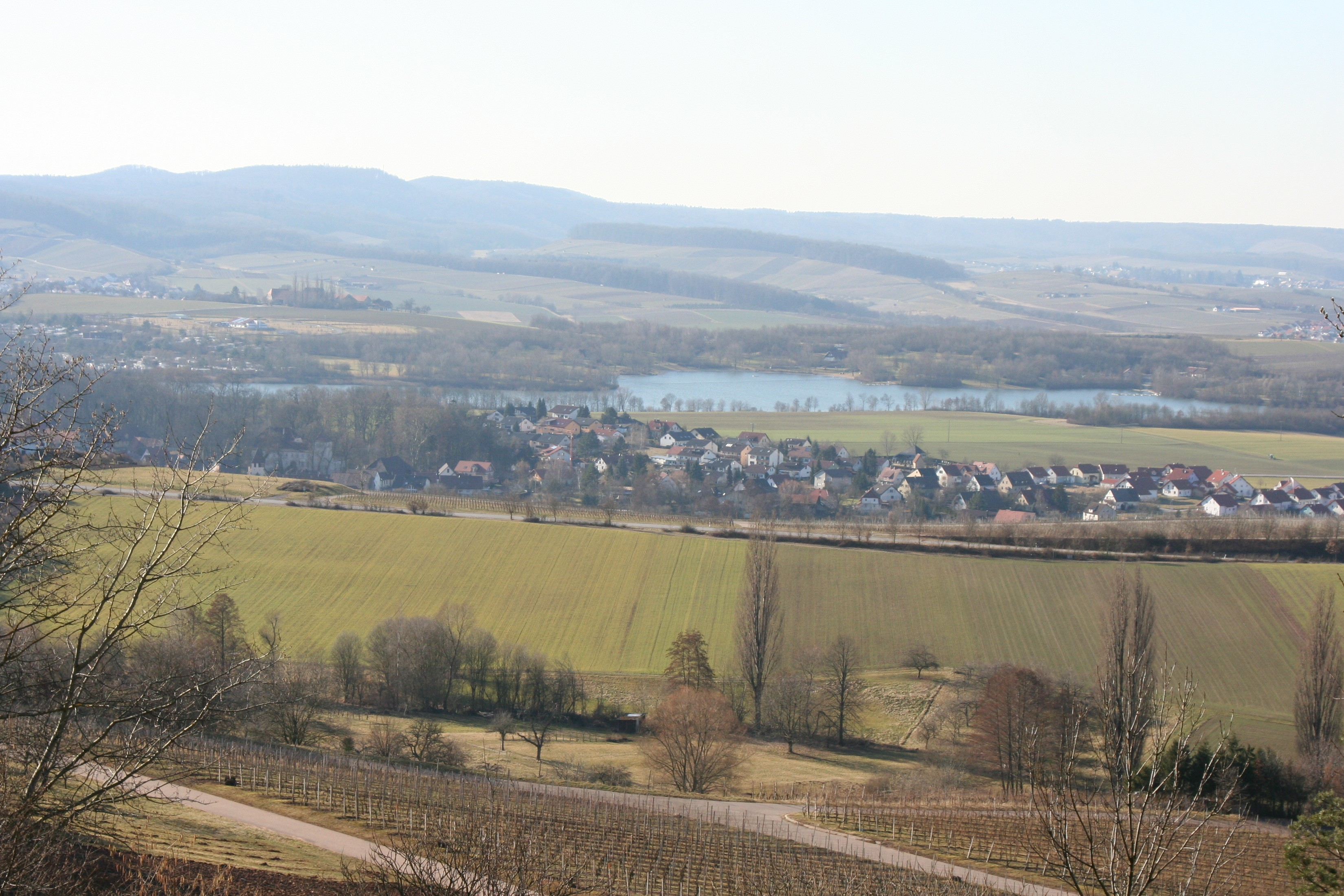 Obersulm-Weiler from the East